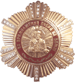 Order of Saint Nicolas International order Ukrainian Order of Saint Nicholas Thaumaturgus, First class.